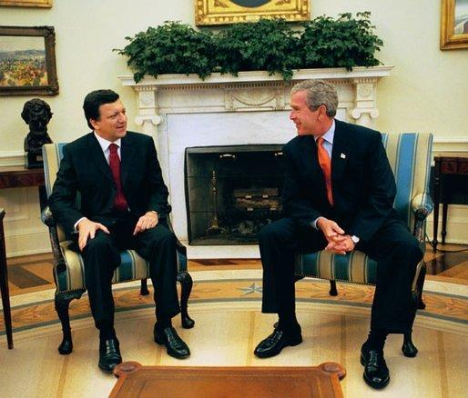 President George W. Bush meets with Prime Minister Jose Manuel Durao Barroso of Portugal in the Oval Office Friday, June 6, 2003.